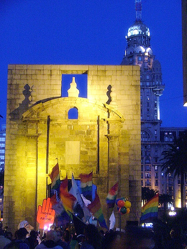 Gay Pride manifestation in Montevideo, Uruguay.